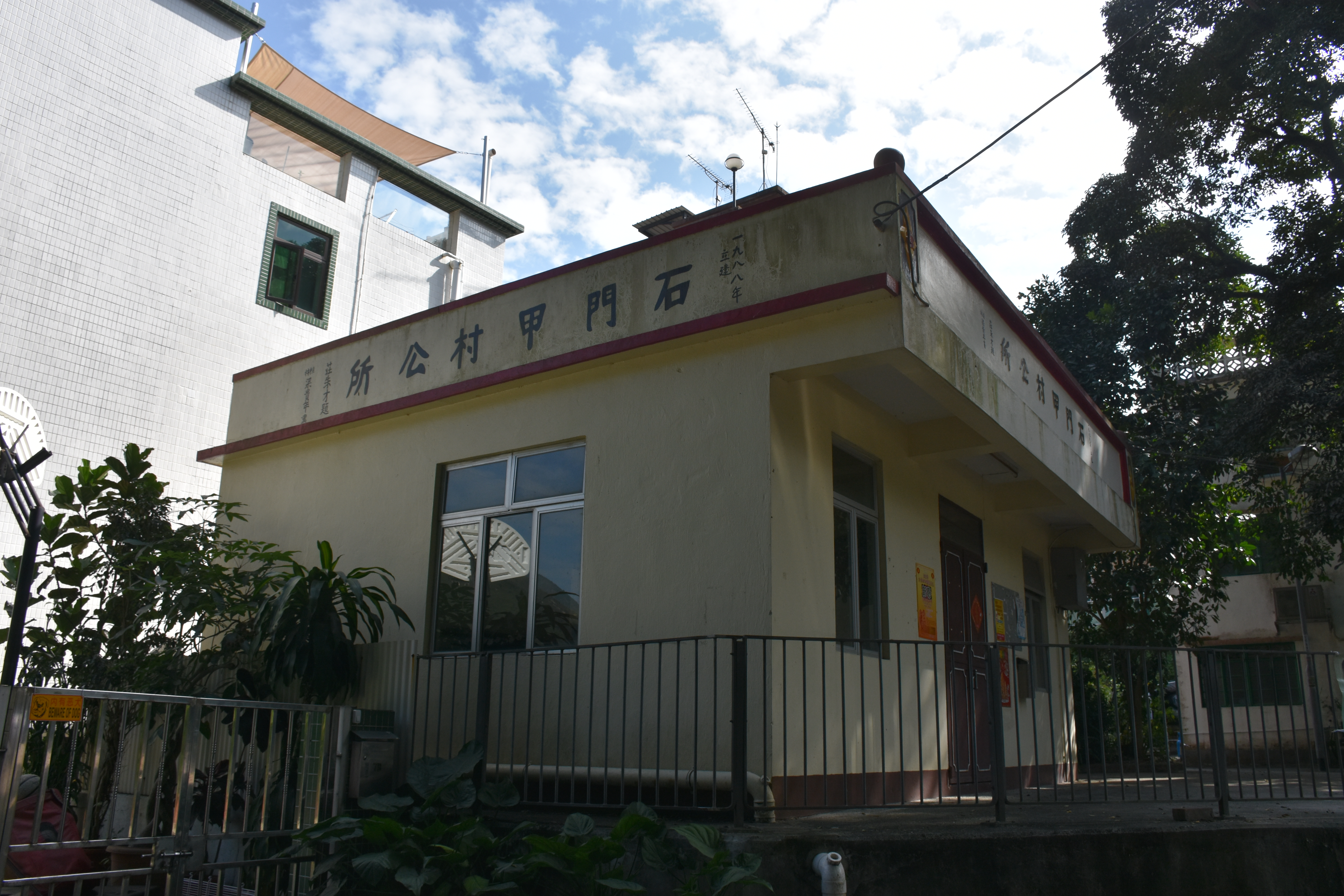 Village Hall in Shek Mun Kap, Tung Chung